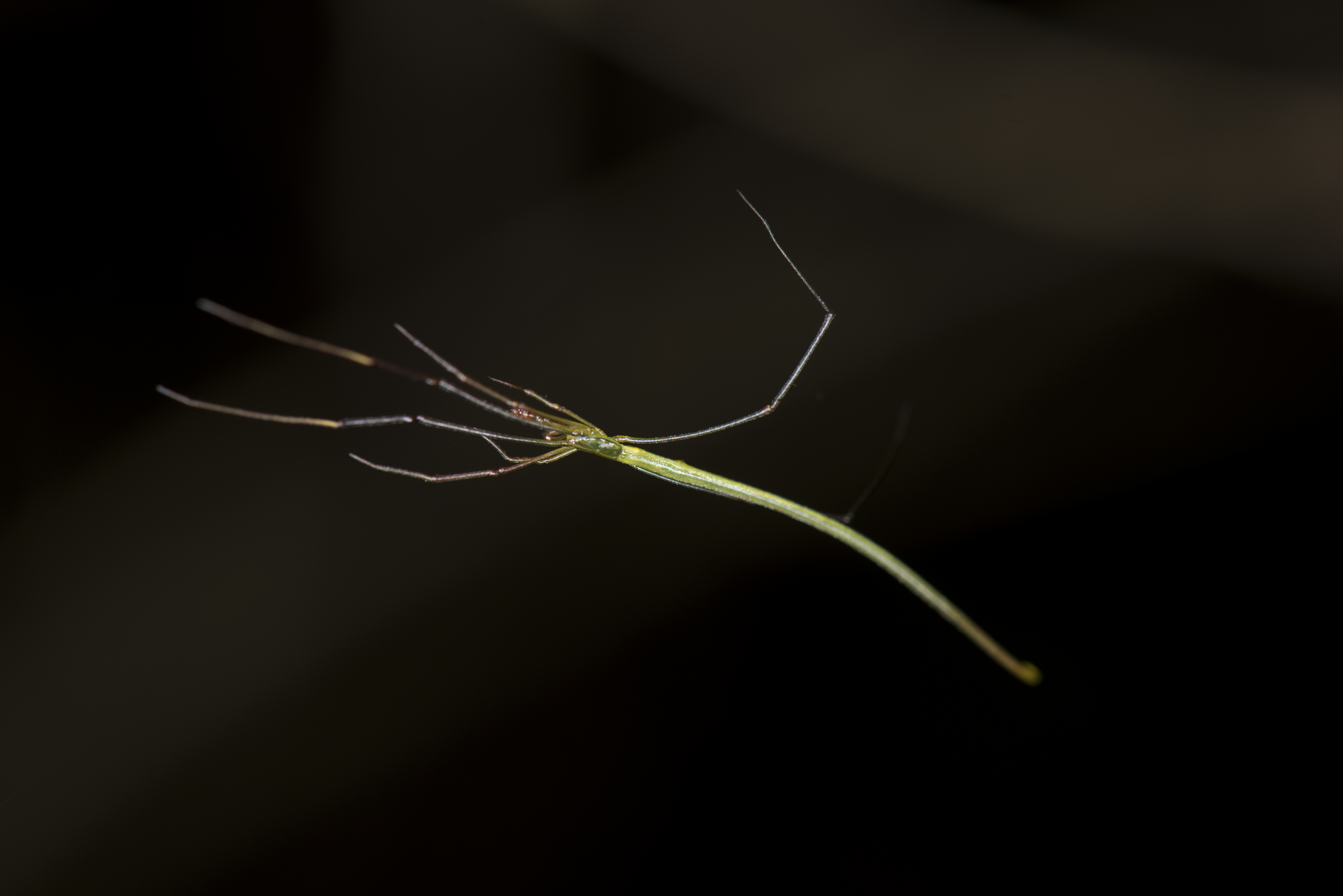 Ariamnes cylindrogaster Simon, 1889 蚓腹寄居姬蛛